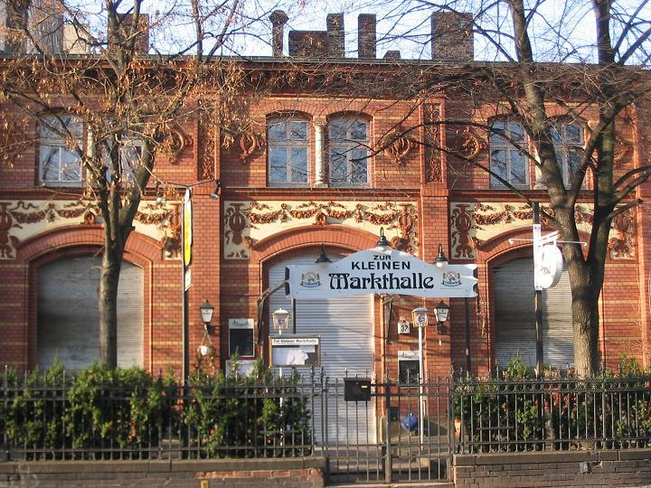 Market house VII, Berlin-Kreuzberg, opening 1888, built according to plans by Hermann Blankenstein, rest part at Legiendamm, formerly and today a restaurant.